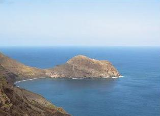 Antequera beach